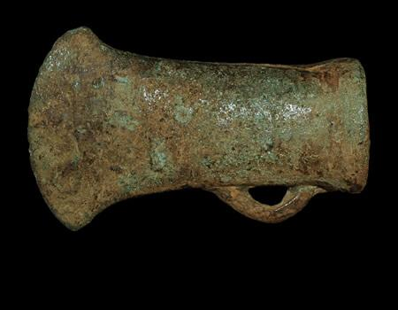 Brozne axe from an Old English collection